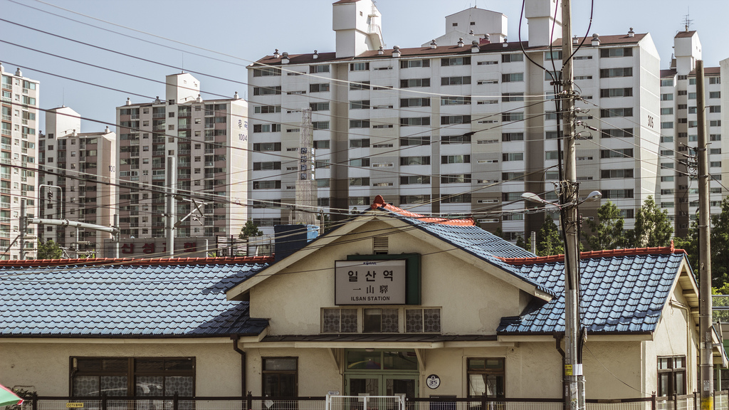 this is the local Train(Korail) station of Gyeongeui line, South Korea. this building was built in 1933.